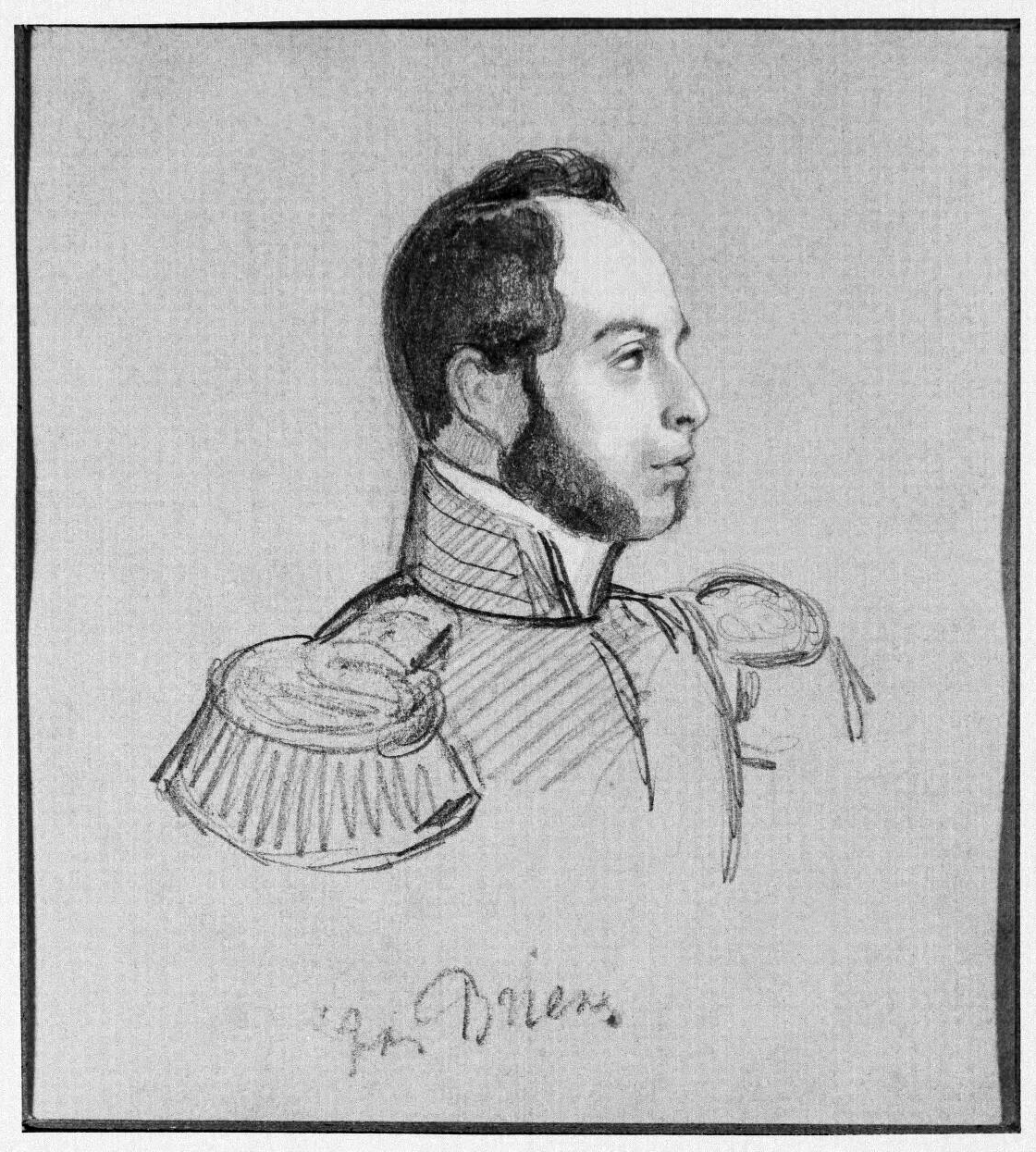 Willem Dirk Arnold Maria (Thierry) Baron van Brienen van de Groote Lindt (Amsterdam, March 5, 1815 - The Hague, 9 April 1873), aristocrat, politician, art collector, chamberlain of the kings William I, William II and William III of the Netherlands.